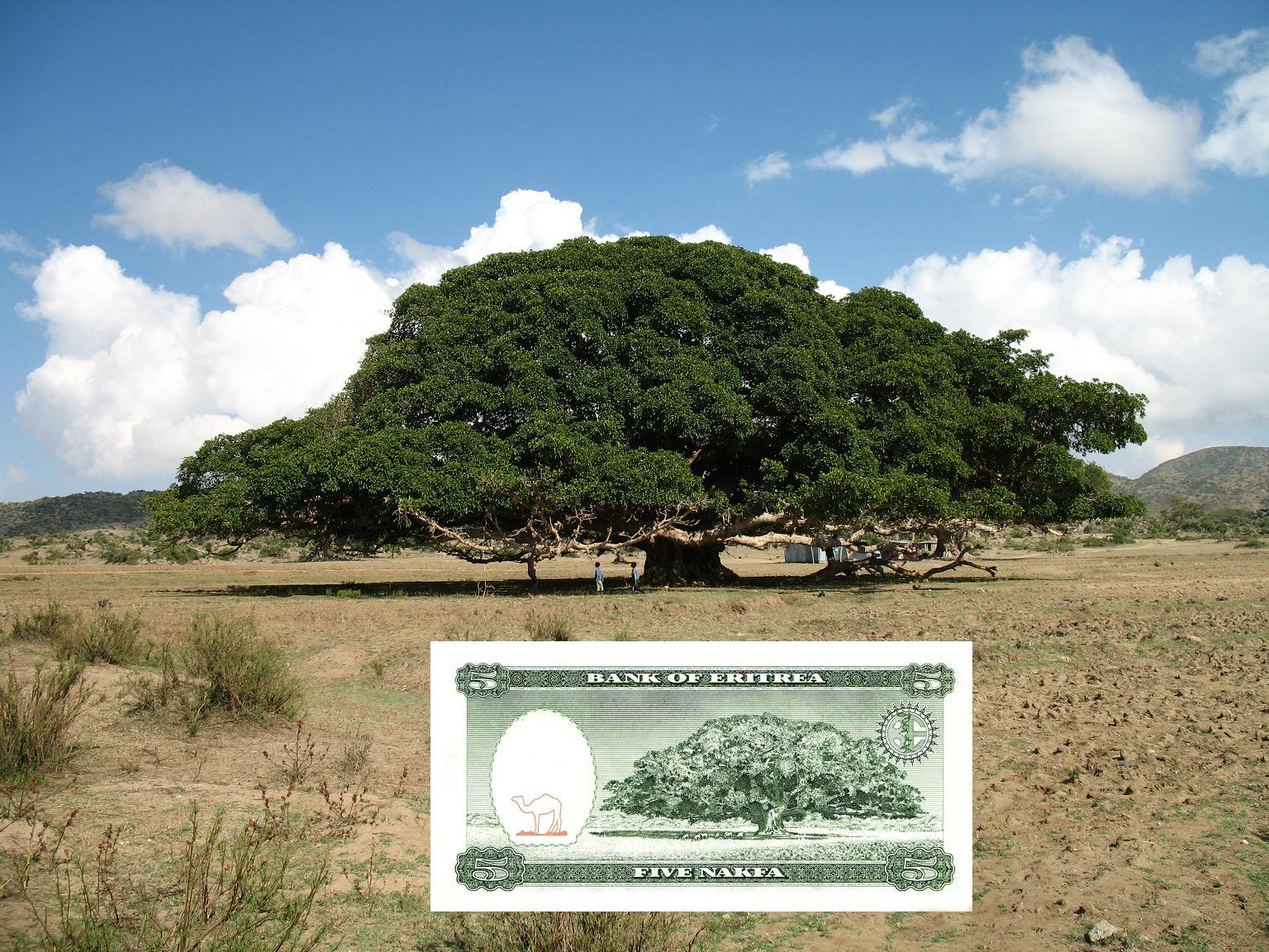 Actual tree of the five Nakfa bank note of Eritrea (Giant Sycamore tree near Segeneyti)